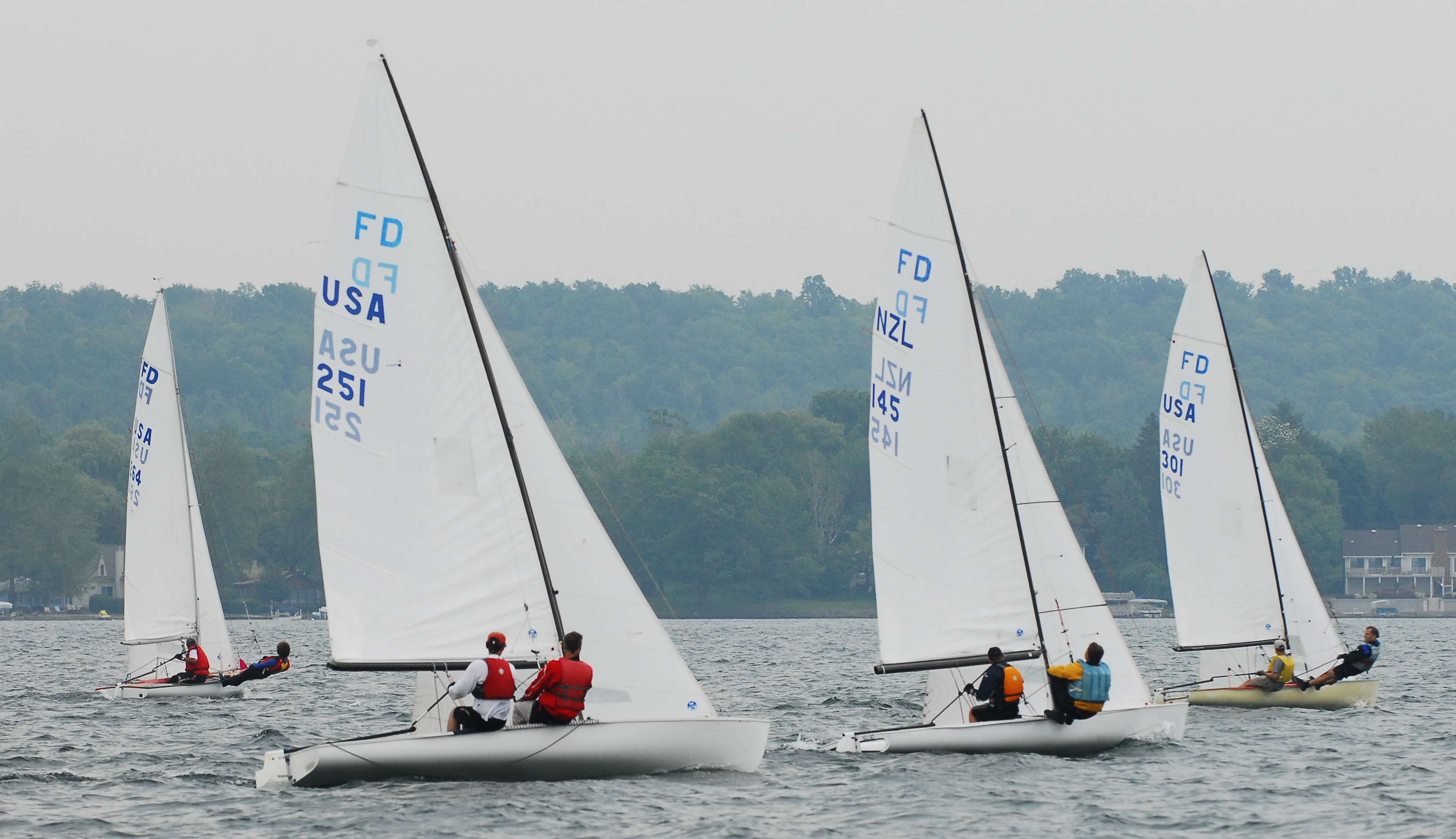 "Flying Dutchmans sailing on the first day of the 2008 Cannonball Regatta held at the Canandaigua Yacht Club in New York and sailed on Canandaigua Lake." (description from the photographer) Sailors from left: Nick Seraphinoff and Jake Muhleman (USA 264), Tim Sayles and Russ Miller (USA 251), Paul Scoffin and Pavel Ruzicka (NZL 145), and Jeff Wrenn and Steve Heinzelman (USA 301). [identified according to the list of participants on the website of the Canandaigua Yacht Club (pdf file)]